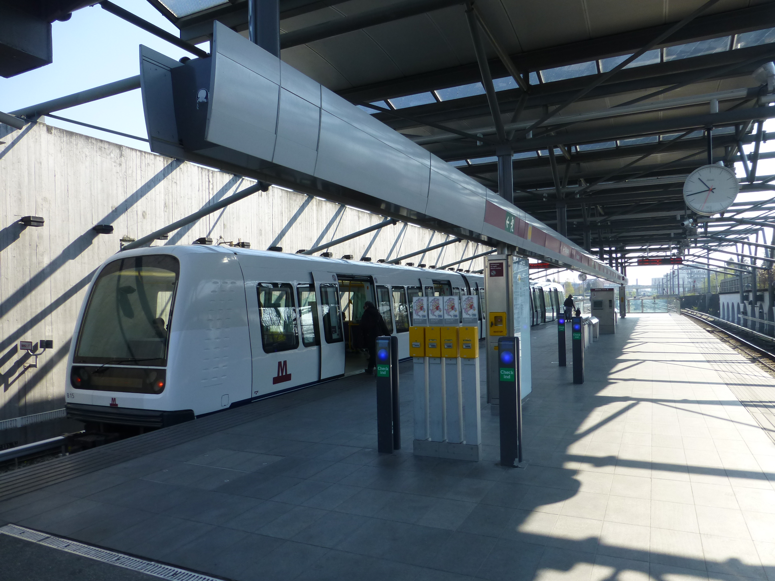 Vanløse Station is a S-train and metro station in Copenhagen.